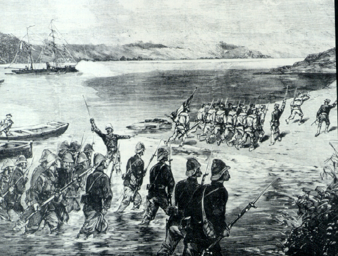 French_capture_of_Danang_1858